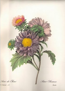 "Aster de Chine" (Callistephus chinensis, syn. Aster chinensis), picture of Pierre-Joseph Redouté (1759–1840), original work published in 1833